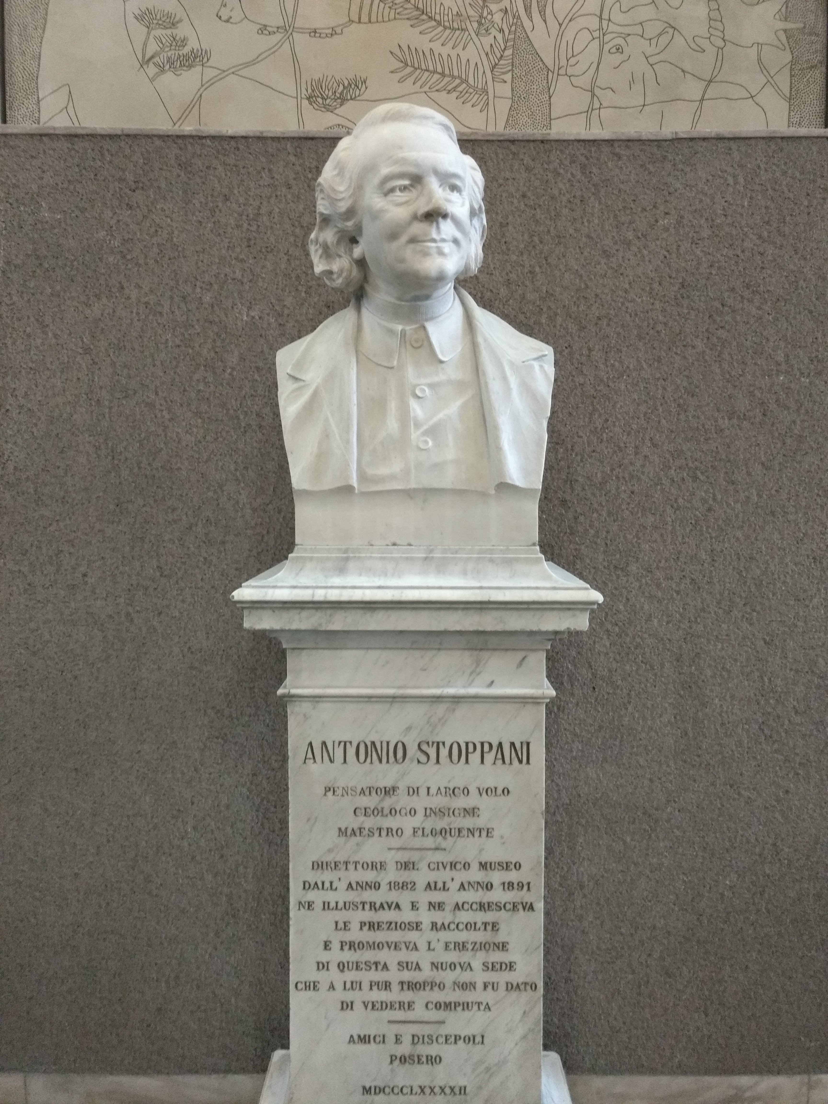 Bust of Antonio Stoppani at museum of natural history Milan